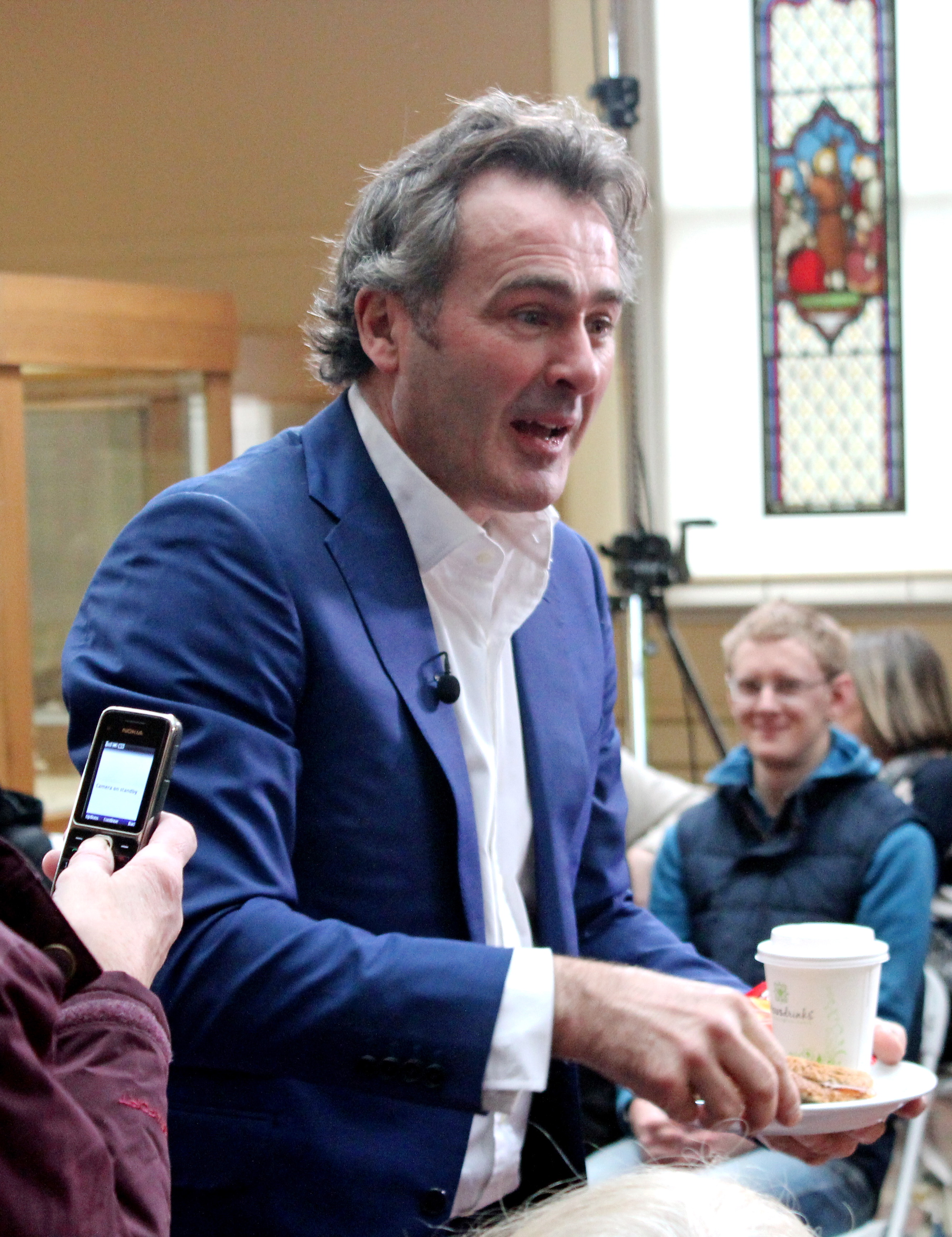 Paul Martin, presenter of BBC TV Flog It!, chats to audience and enjoys a cup of tea at a recording in Birmingham Museum and Art Gallery, 16th January 2014